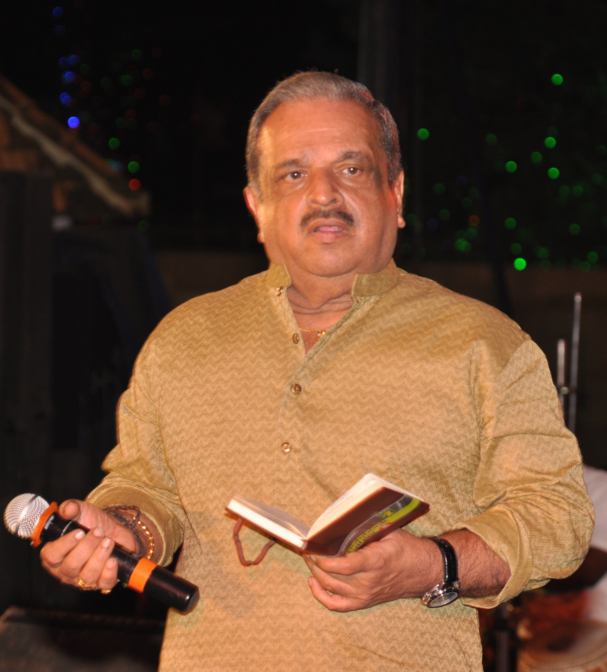 Indian Play back Singer P.Jayachandran